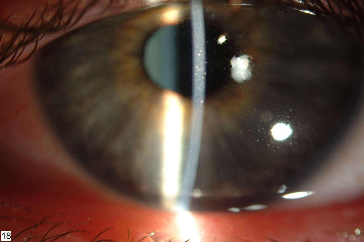 Left cornea before cyclosporin A treatment. Note the slightly elevated, grayish-white subepithelial opacities. Clinical appearance was similar in the right eye.Hasanreisoglu and Avisar Cases Journal 2008 1:415